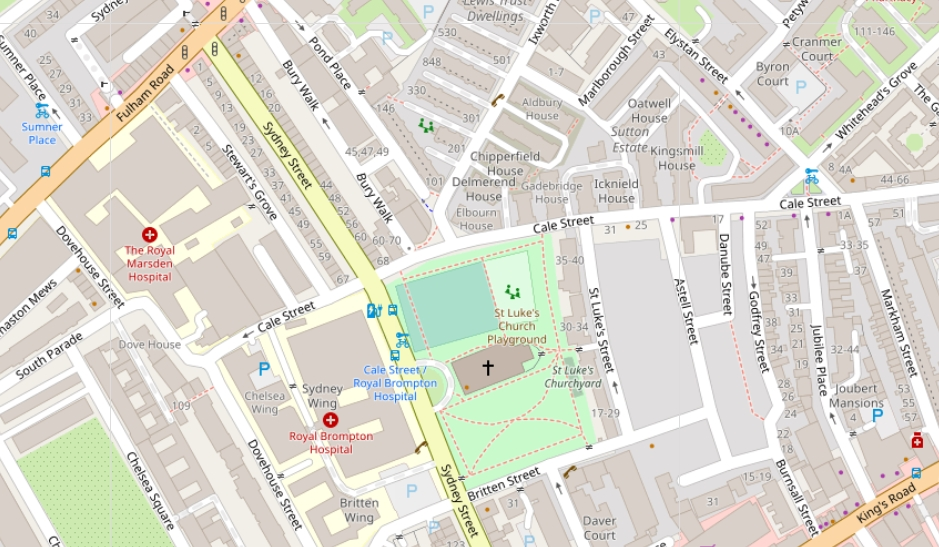 Cale Street map